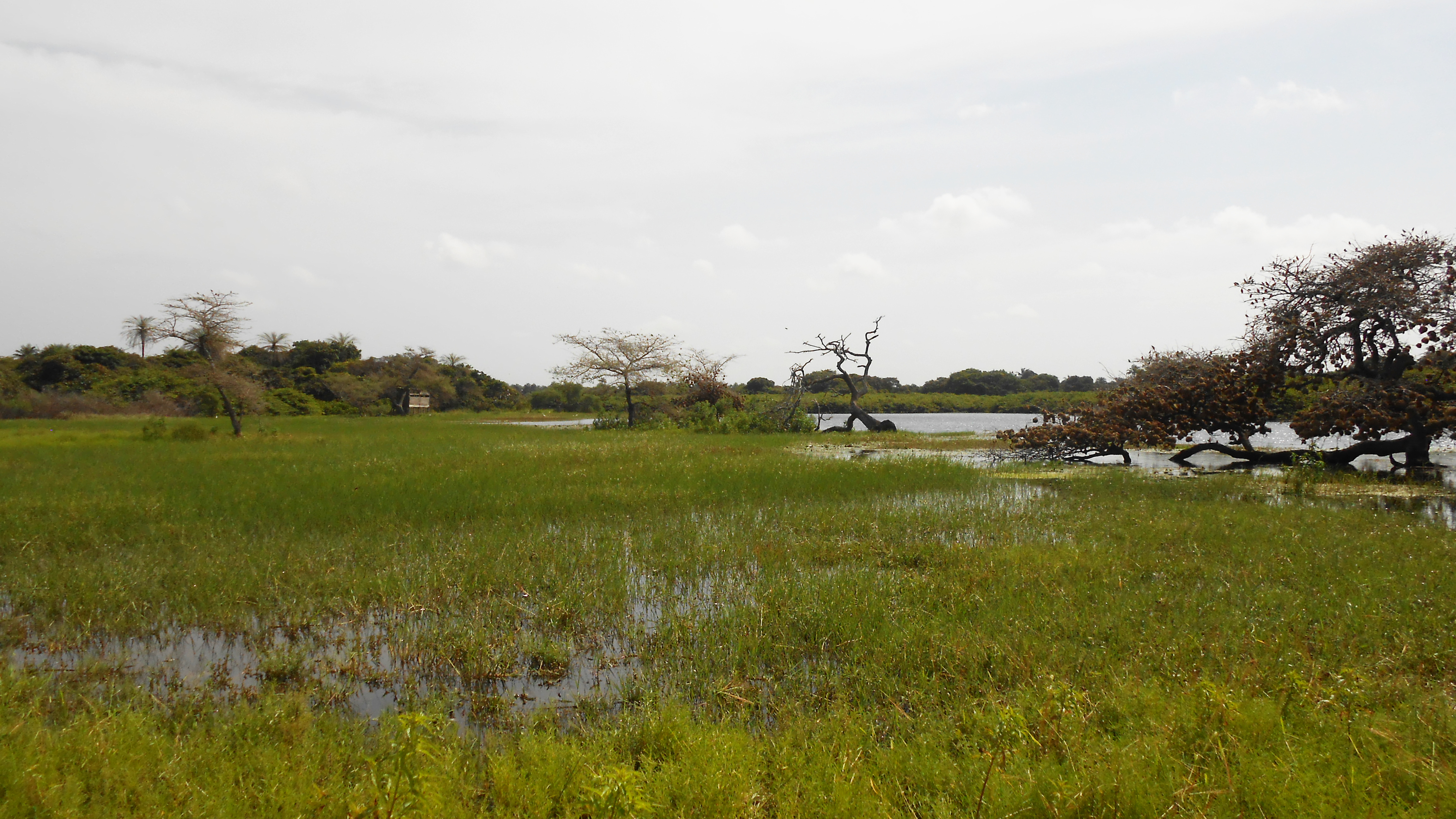 Landscape on the island of Orango next to a lake with rare hippopotamuses living both in sweet water and the sea. In the back, the visitor can find a structure to watch the local animal life without disturbing them.